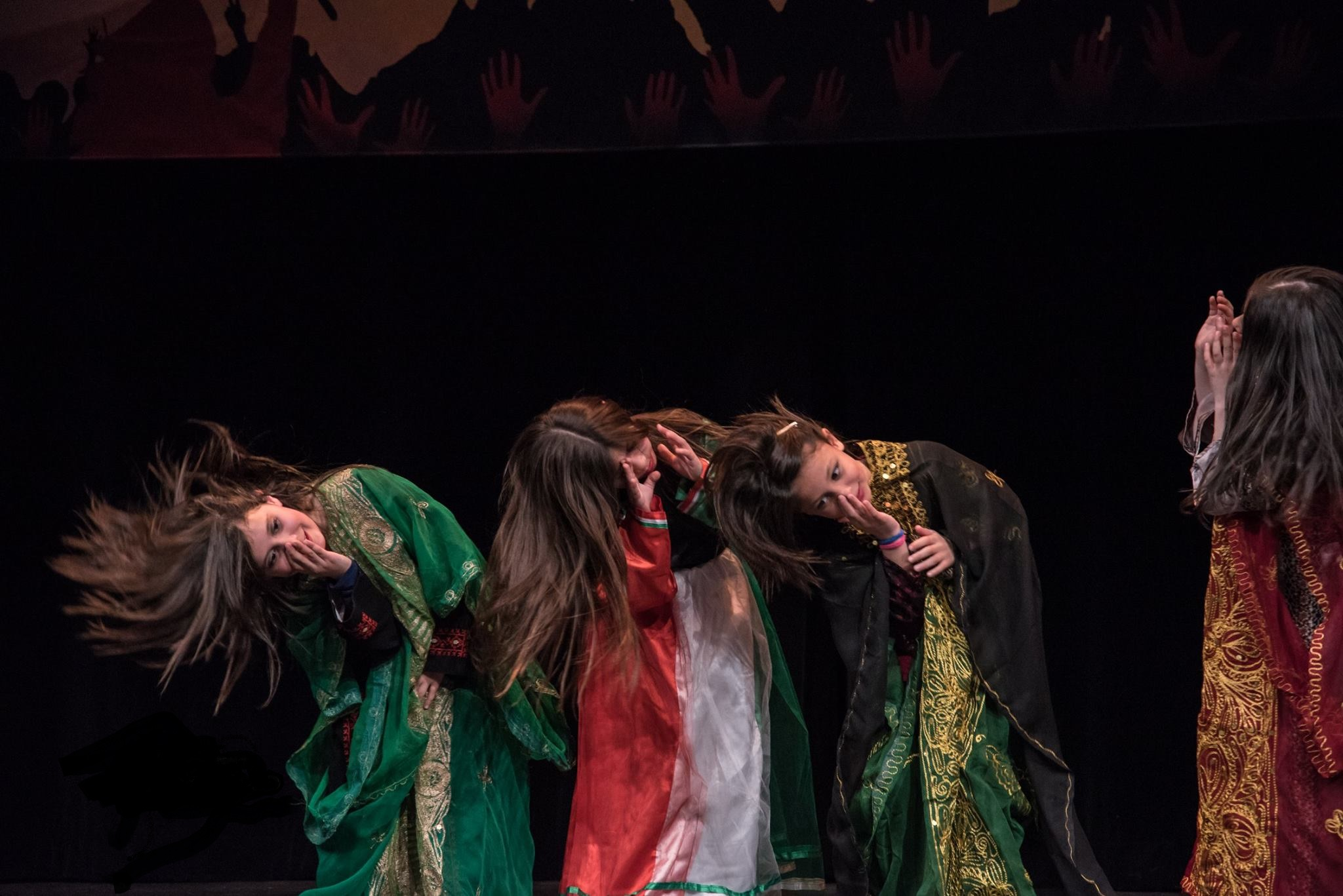 Arab girls dancing Khaleegy dance